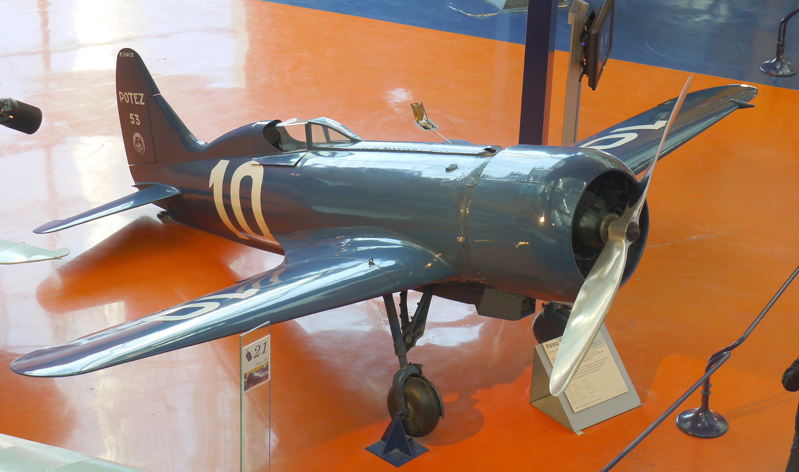 Potez 53 (1933), Museum of Air and Space Paris, Le Bourget (France)